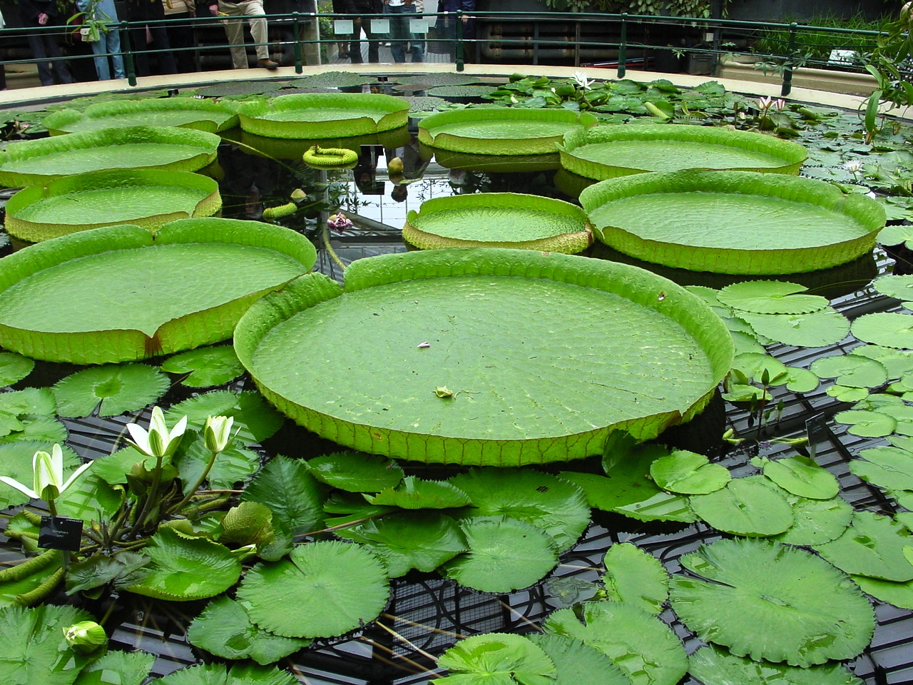 Kew Gardens 2006 The Waterlily House